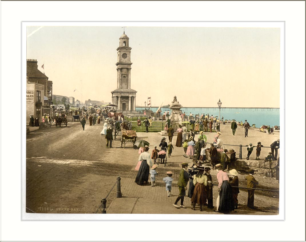 Clock tower Herne Bay England. This image is dated 1899 to 1905, because the third pier, seen in the background, was built 1899, and the clock faces were faced with white opal glass (milk glass) in 1905 - not yet evident in this image.